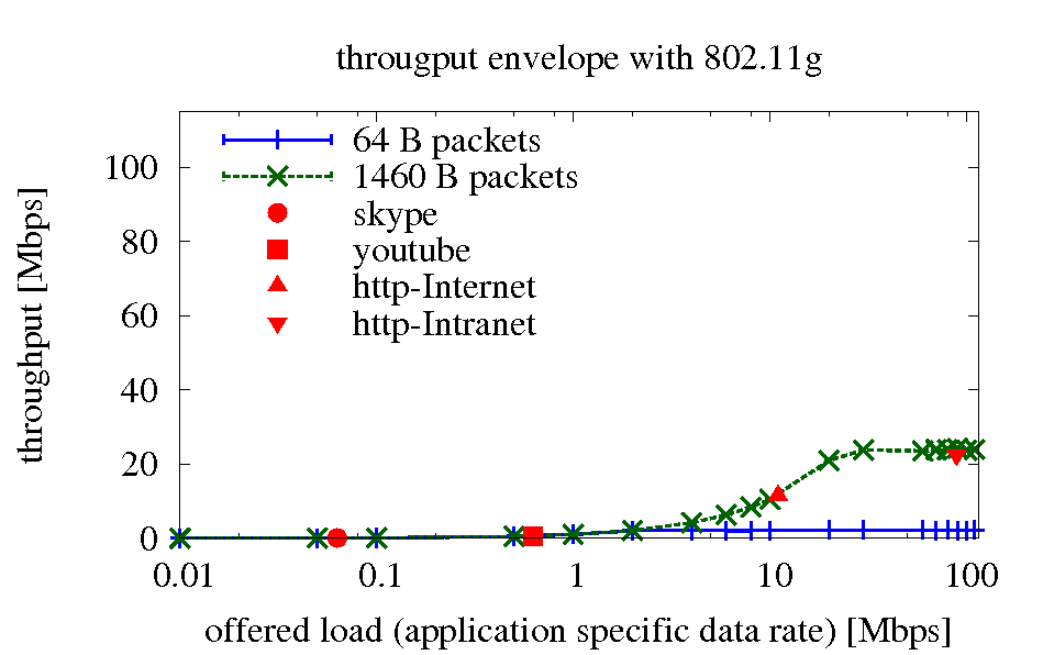 The graph shows measurements of throughput measurements. Each represents an average throughput (incl. some variation) of 25 measurements. Each is with a specific packet size (small or large) and with a specific data rate (10Kbps -- 100 Mbps). Markers for traffic profiles of common applications are included as well. [1][2]